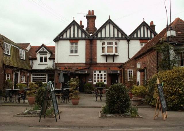 The 'Green Man' public house This pub is located in the heart of Toot Hill village.